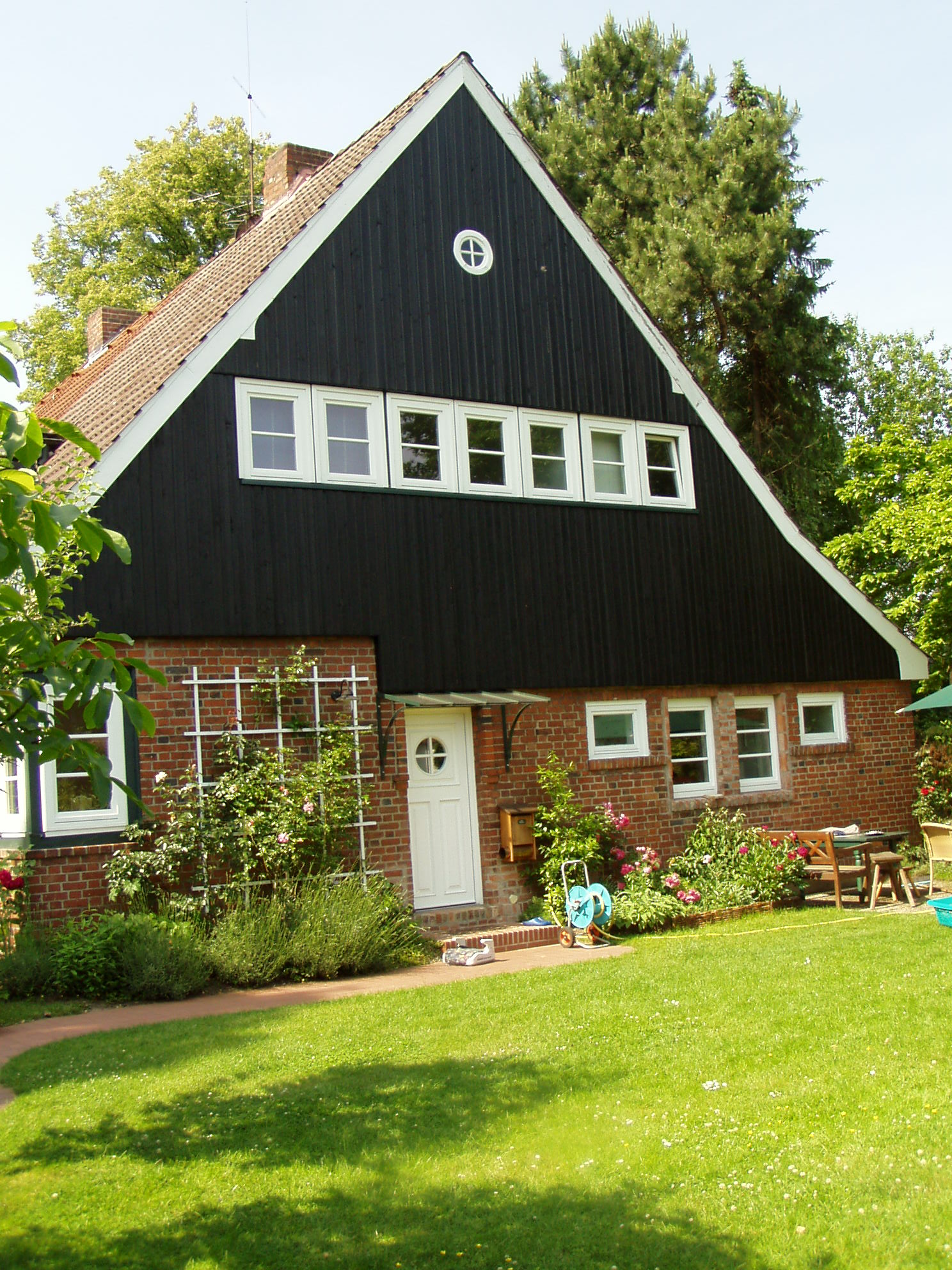 Traditional houses at Hamburg-Sasel, Germany This is a photograph of an architectural monument.